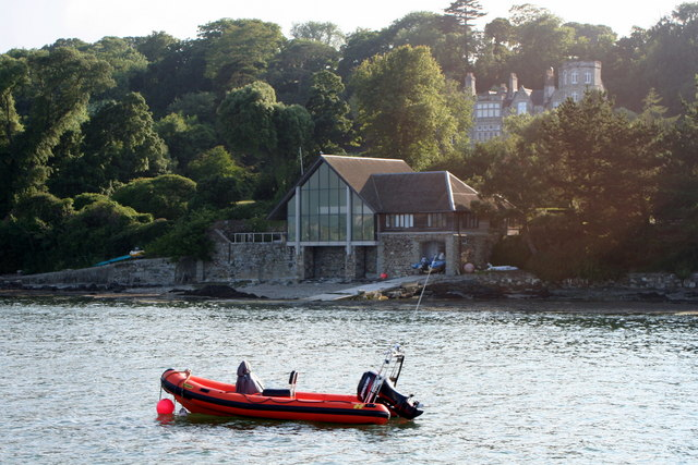 Boathouse at Greatwood. The boathouse has been redeveloped to form an impressive waterside dwelling. Behind the boathouse is Greatwood House, now converted into apartments.